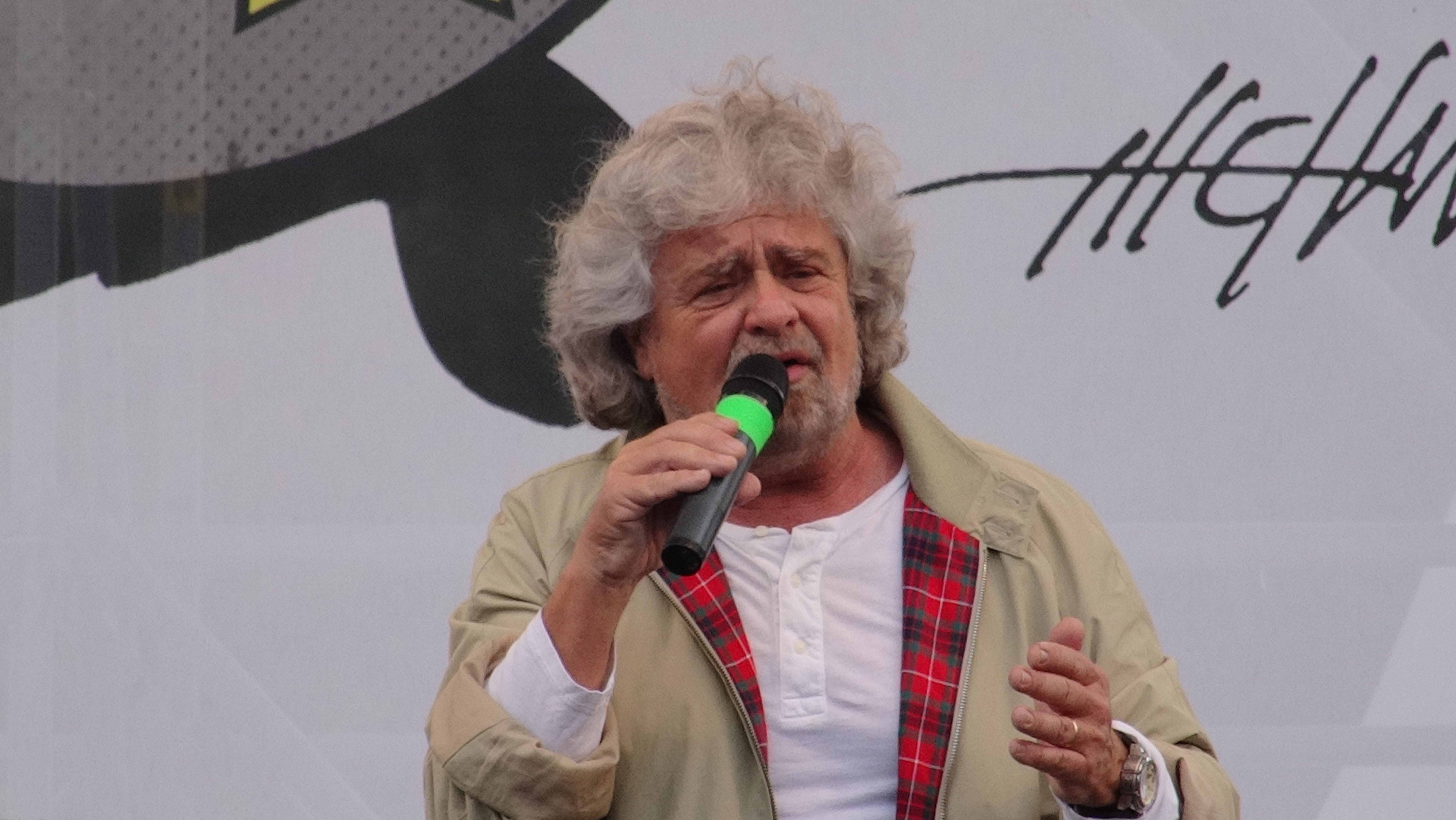 Beppe Grillo a San giovanni in laterano 23 maggio 2014